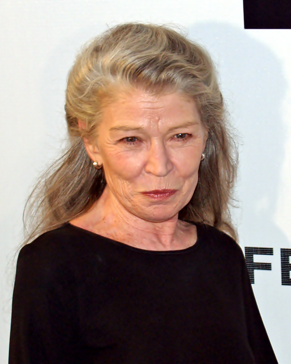 Phyllis Somerville at the 2007 Tribeca Film Festival premiere of Lucky You.